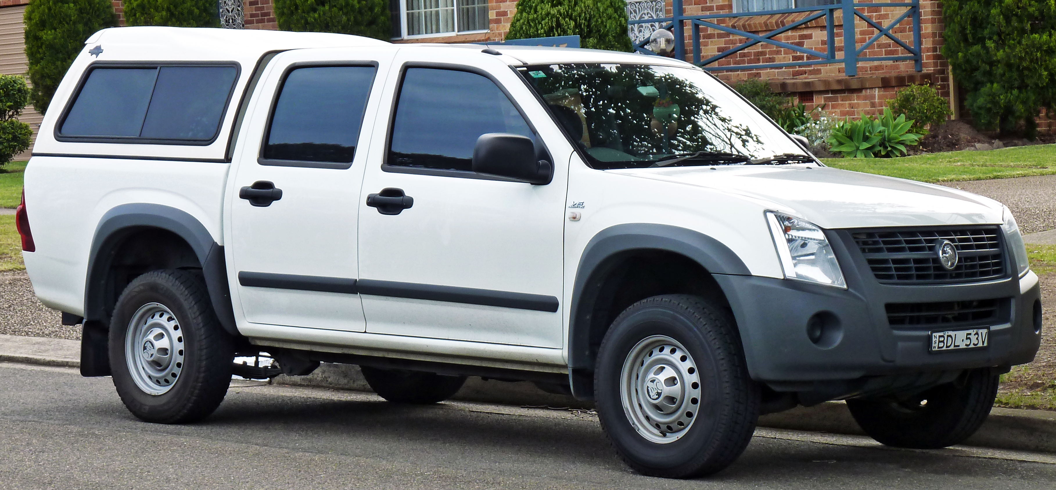 2007 Holden RA Rodeo LX Crew Cab 4-door utility. Photographed in Taren Point, New South Wales, Australia.